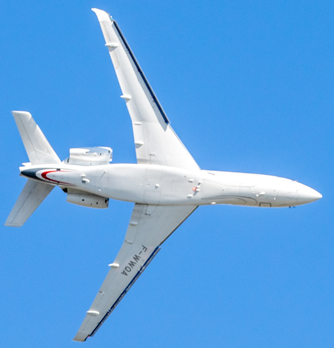 Dassault Falcon 8X at Paris Air Show 2019